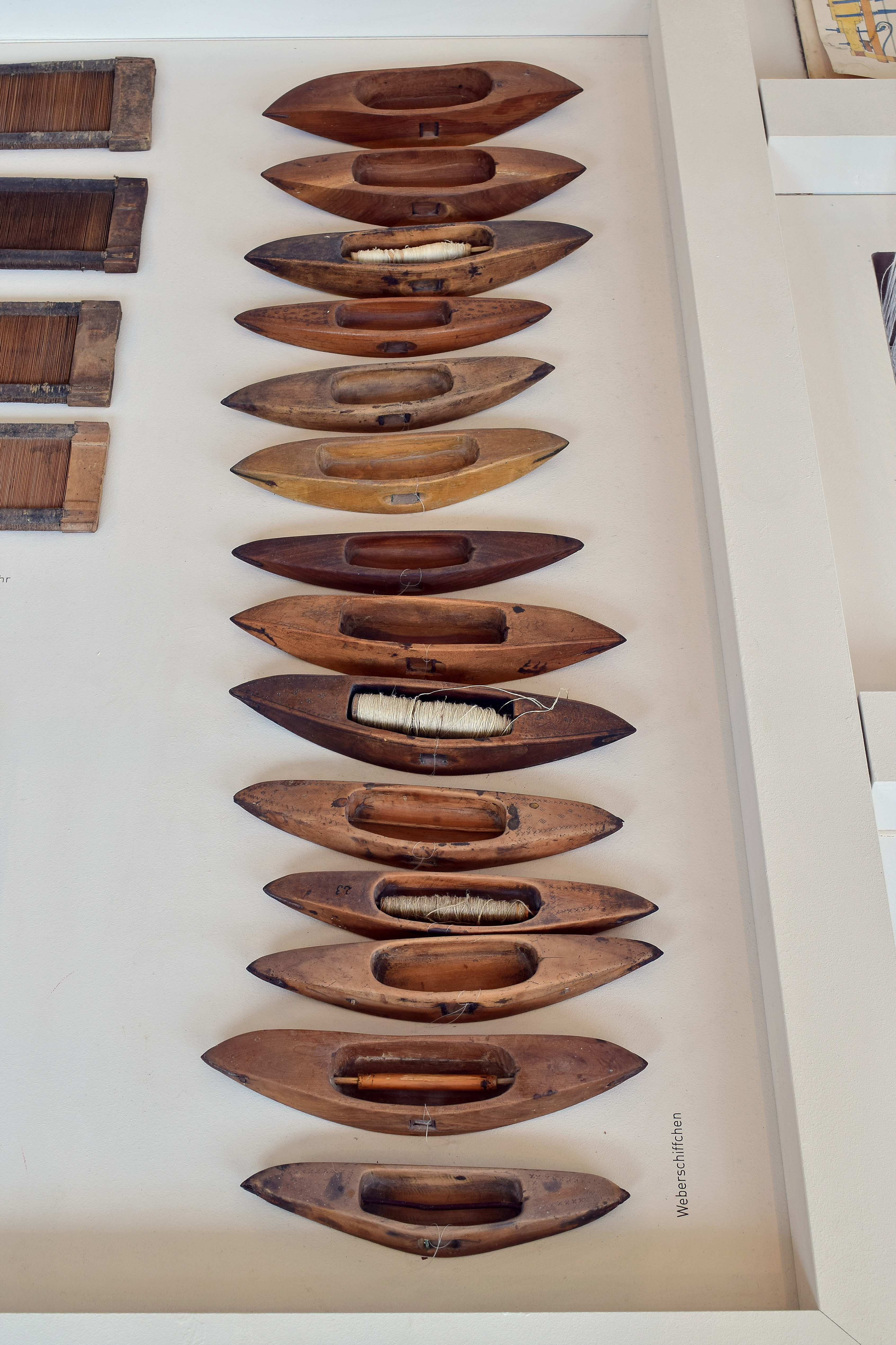 Some Weaving shuttles, Textiles Zentrum Haslach an der Mühl.